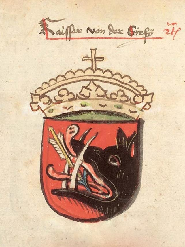 Serbian Emperor's coat of arms (Triballian boar), Chronicle of the Council of Constance, mid-15th-century